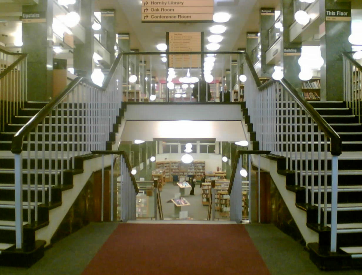 Interal view of Liverpool Central library from the refreshment area